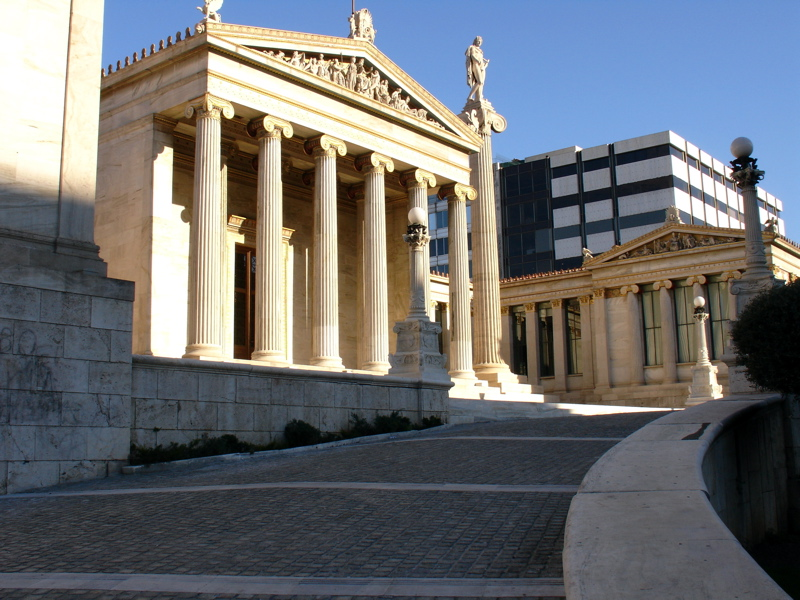 Academy of Athens, in Athens